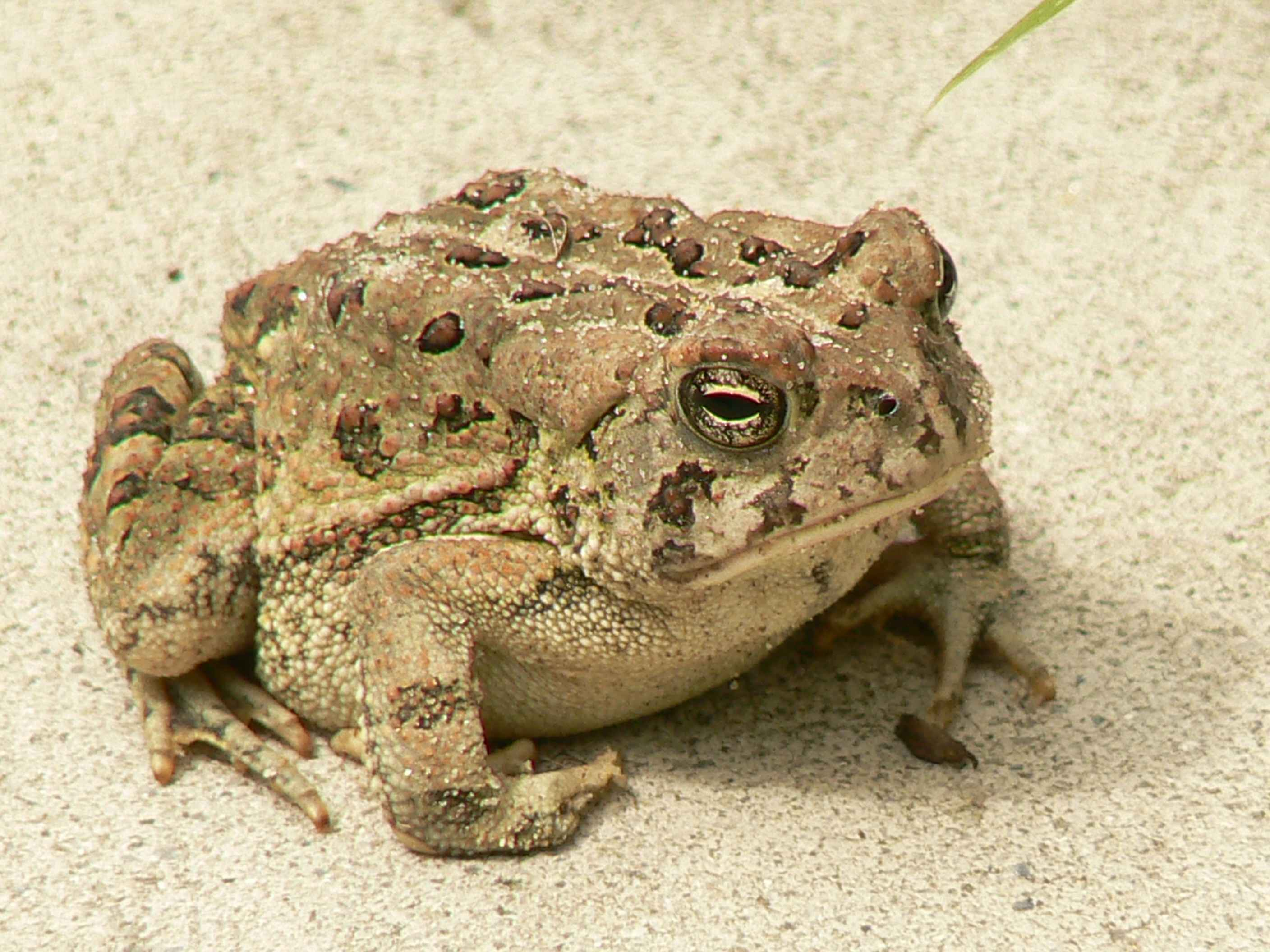 Image title: Fowler's Toad Image from Public domain images website